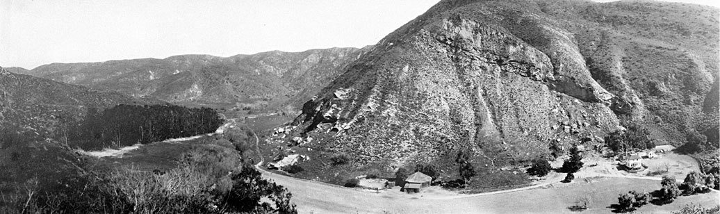 "A panorama of Aliso Canyon, created from two circa 1900 images, shows a eucalyptus grove on the left, part of the original Goff homestead, and to the right, buildings on the Thurston homestead, begun in 1871. The two-story house replaced the original cabin around 1890. In 1935, two acres of the eucalyptus grove were donated by Blanche and Florence Dolph for a Girl Scout Camp commemorating their mother. First American Title Corporation Historical Photo Collection."